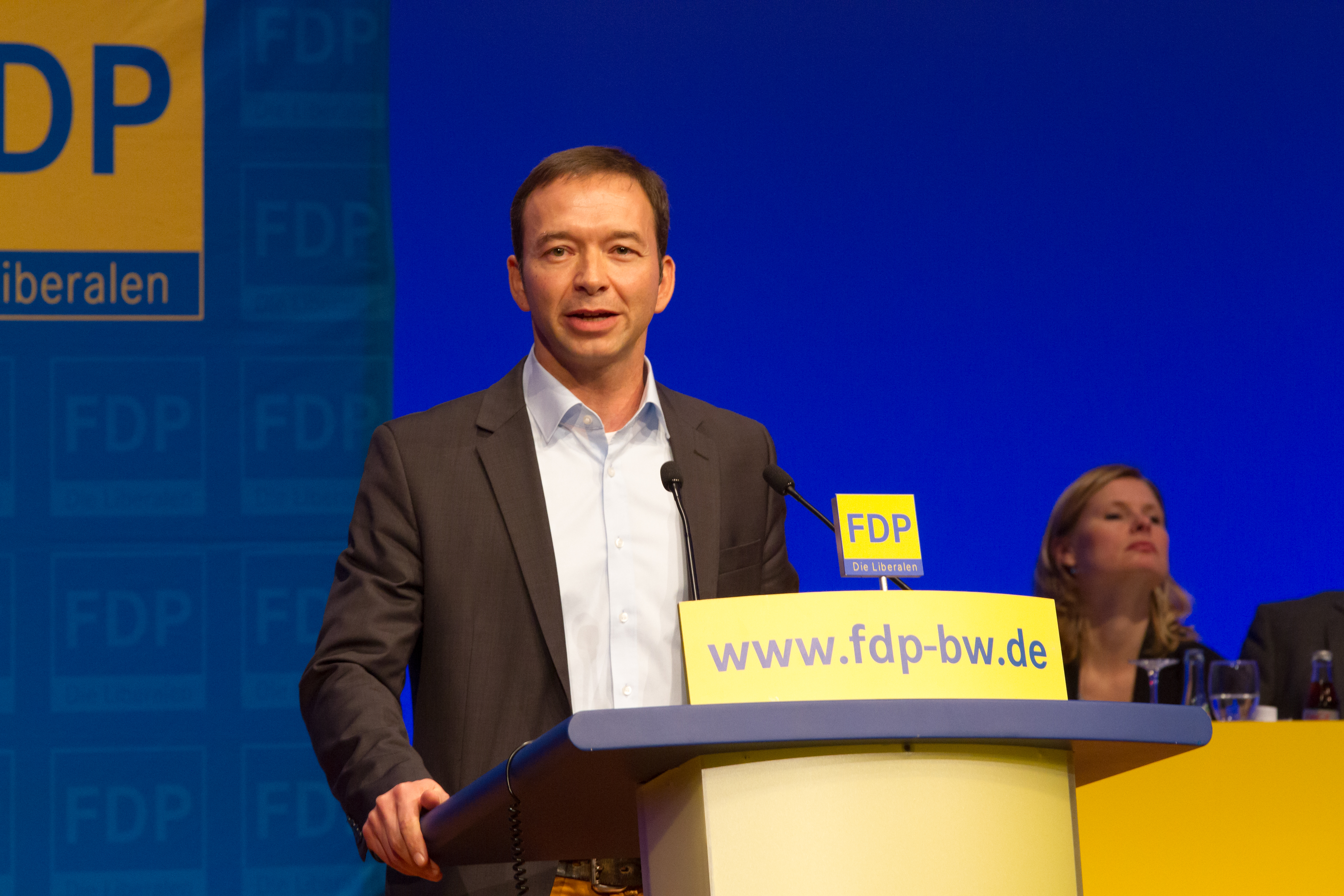 Series: 112th regular party convention of the FDP Baden-Württemberg in Stuttgart on January 5th, 2015 Image: Pascal Kober